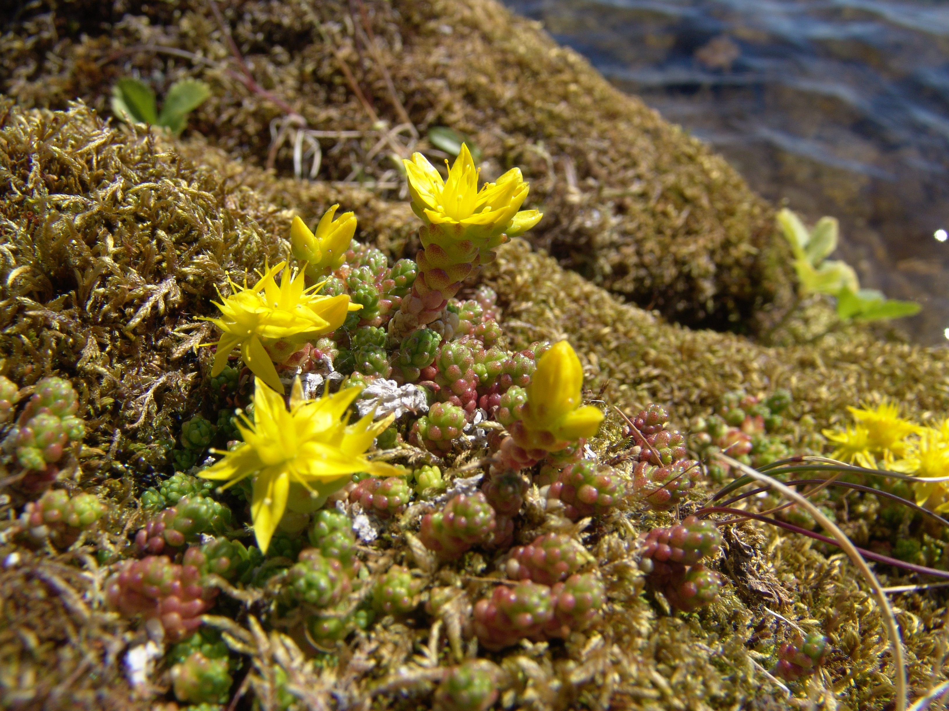 Island, sedum acre.